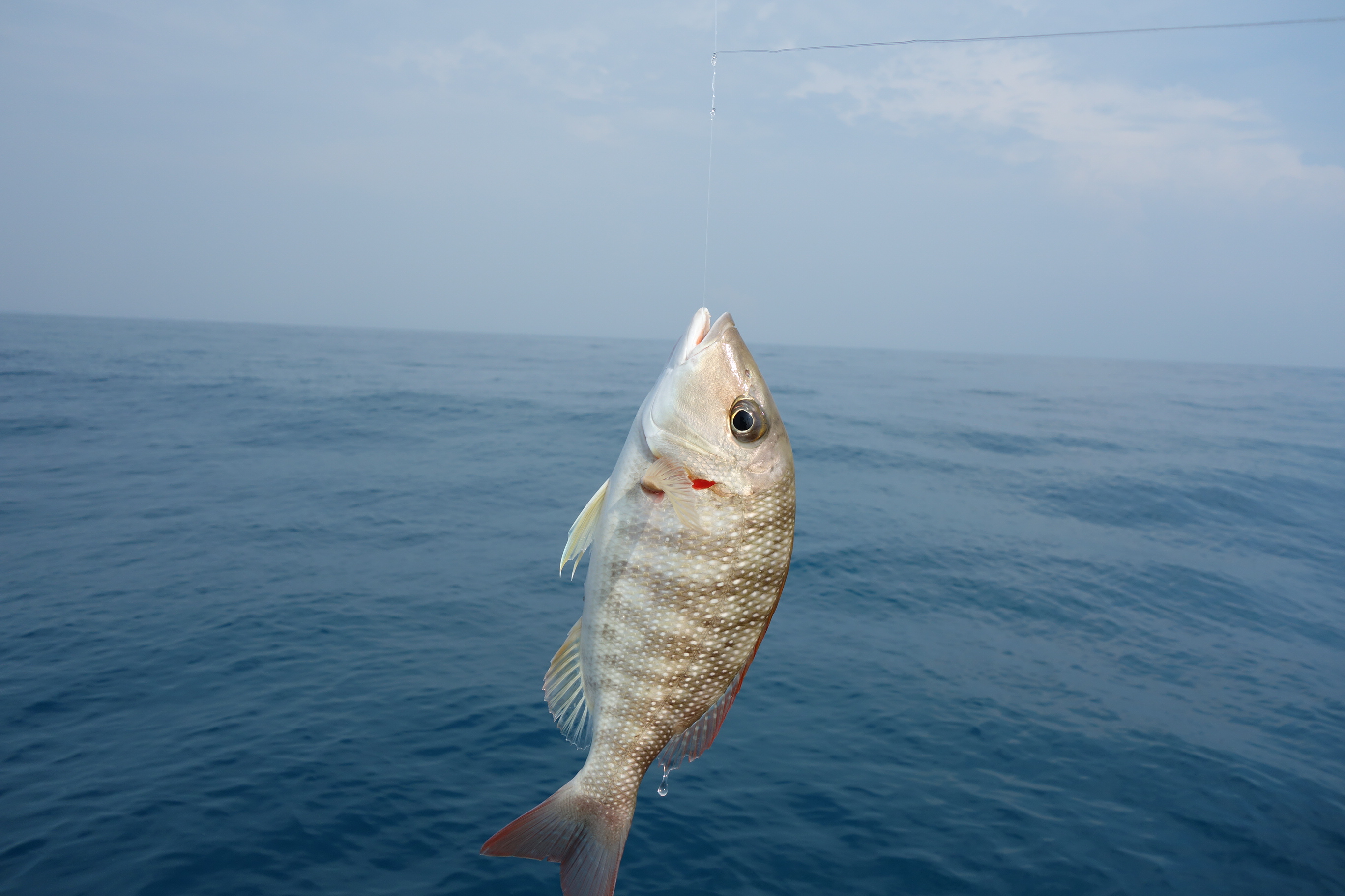 An Orange-striped Emperor fish (Lethrinus obsoletus) caught in Jawa Sea